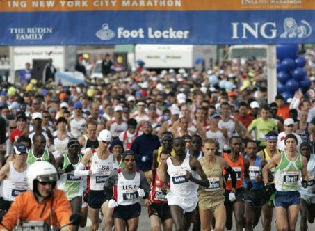 ING NYC Marathon